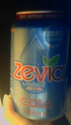 A can of Zevia Cola. This picture is taken with Webcam as my camera is out of battery for now. I will take a better picture in the future. Or if someone else has a good picture please upload it. Thanks!